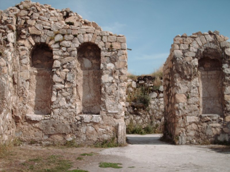 Picture taken by Pentocelo in Bishapour, Iran, April 2006 The palace of Shapur Ist